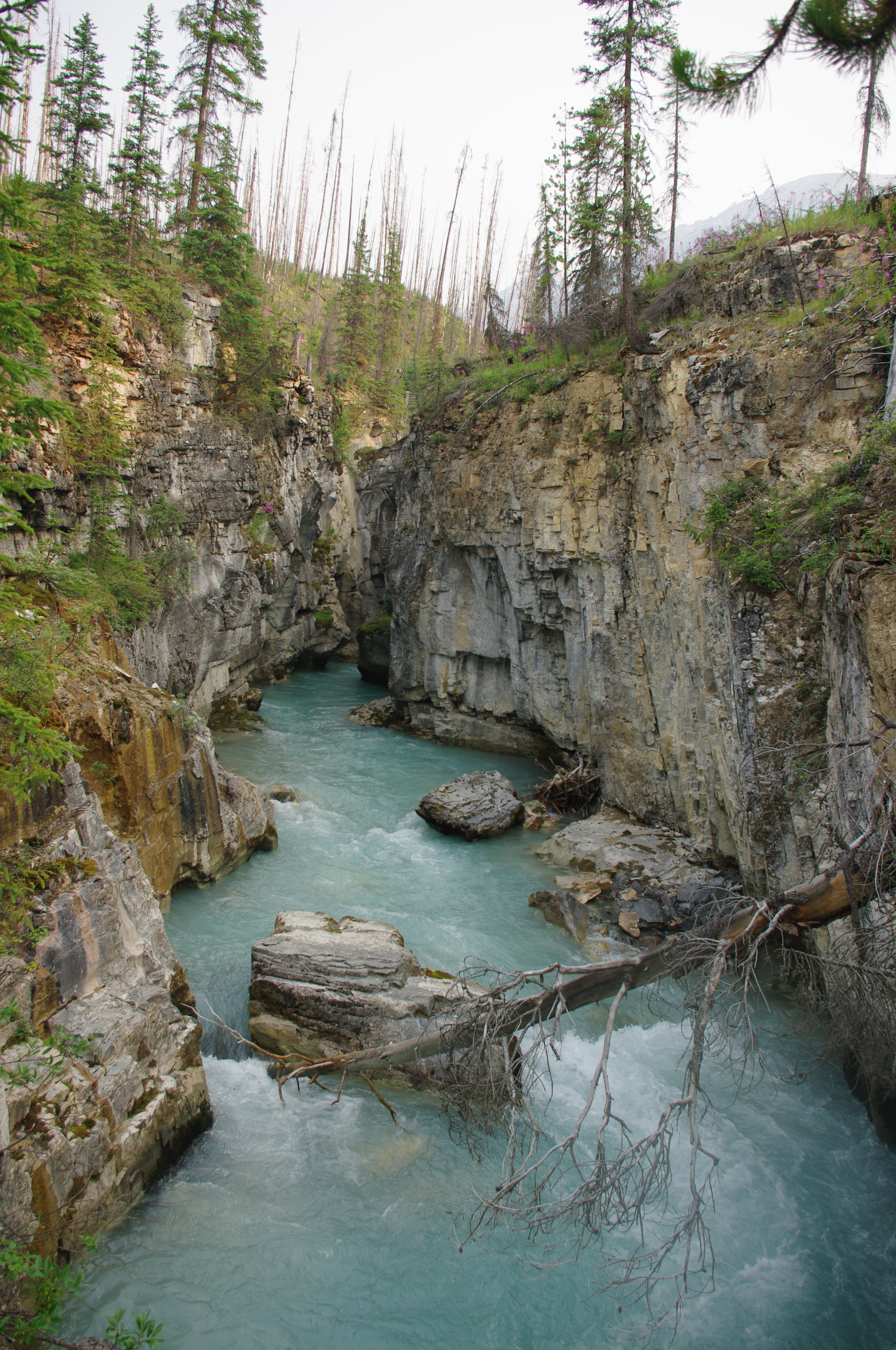 The lower end of Marble Canyon in Kootenay National Park, British Columbia, Canada.